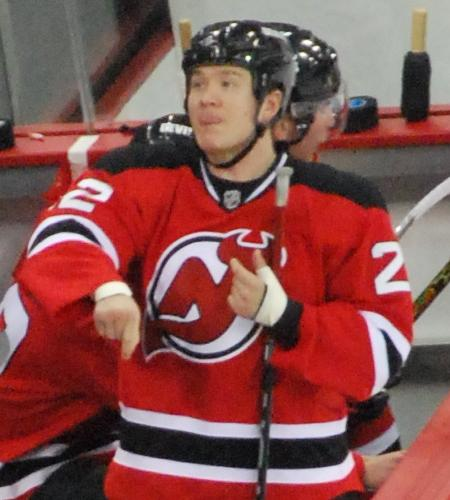 Arron Asham put a nice spiral on his glove when he tossed it to the equipment guy